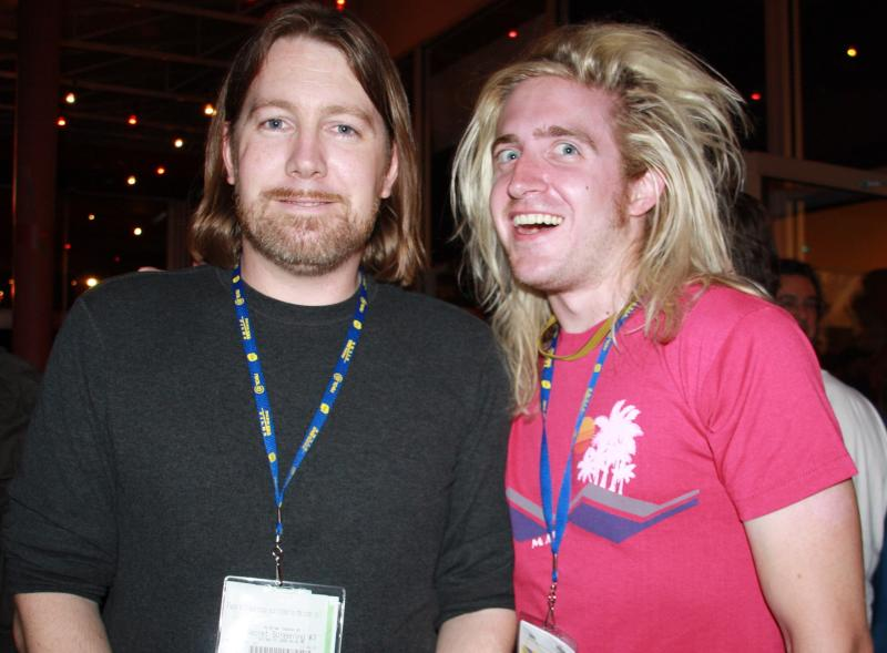 C. Robert Cargill (A.K.A 'Massawyrm') to the left with Ryan Harrison taken at Fantastic Fest 2009.